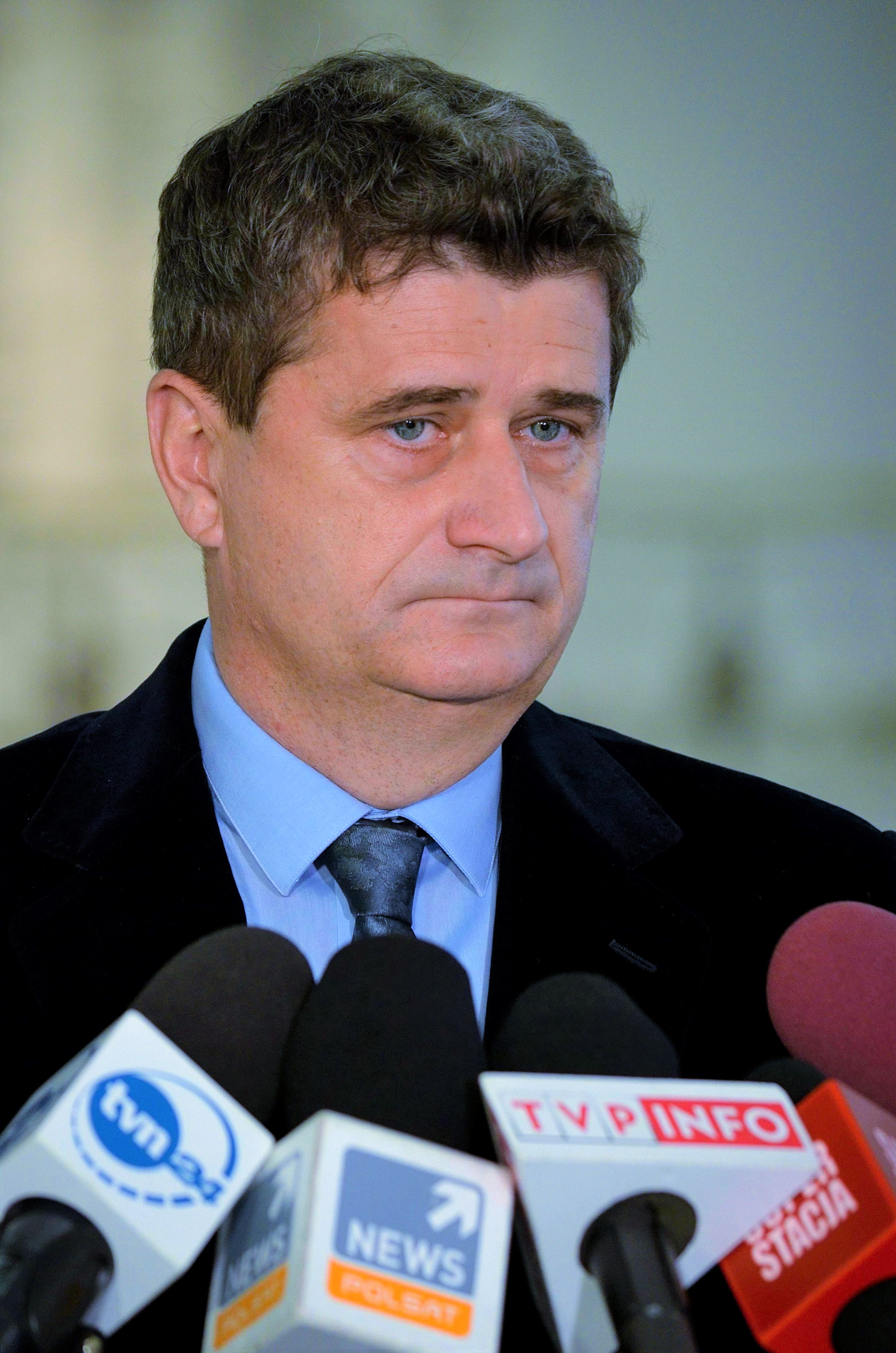 Deputy Janusz Paliot in the Sejm